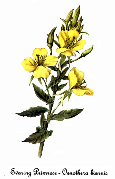 Watercolor painting of Oenothera_biennis-2.